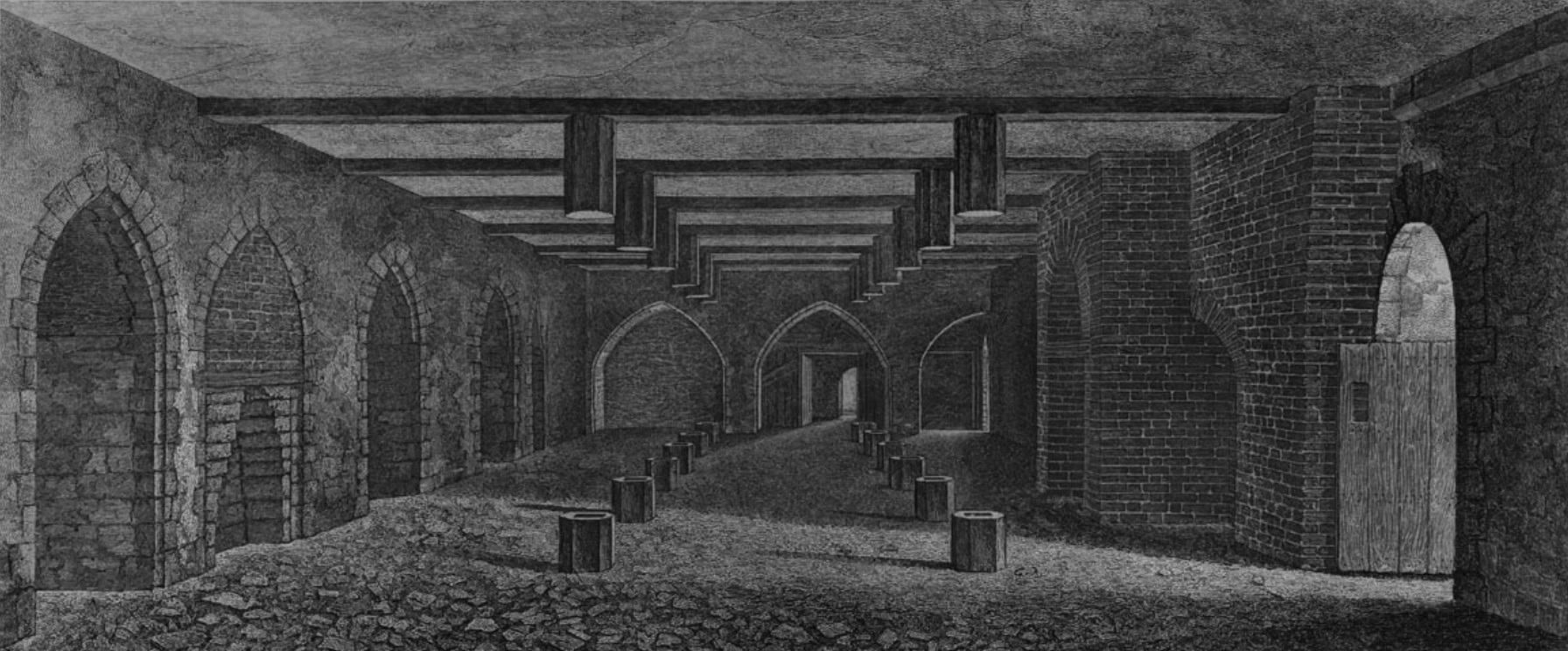 The cellar underneath the House of Lords, as drawn by William Capon. Cropped to remove watermark, and image size increased slightly.